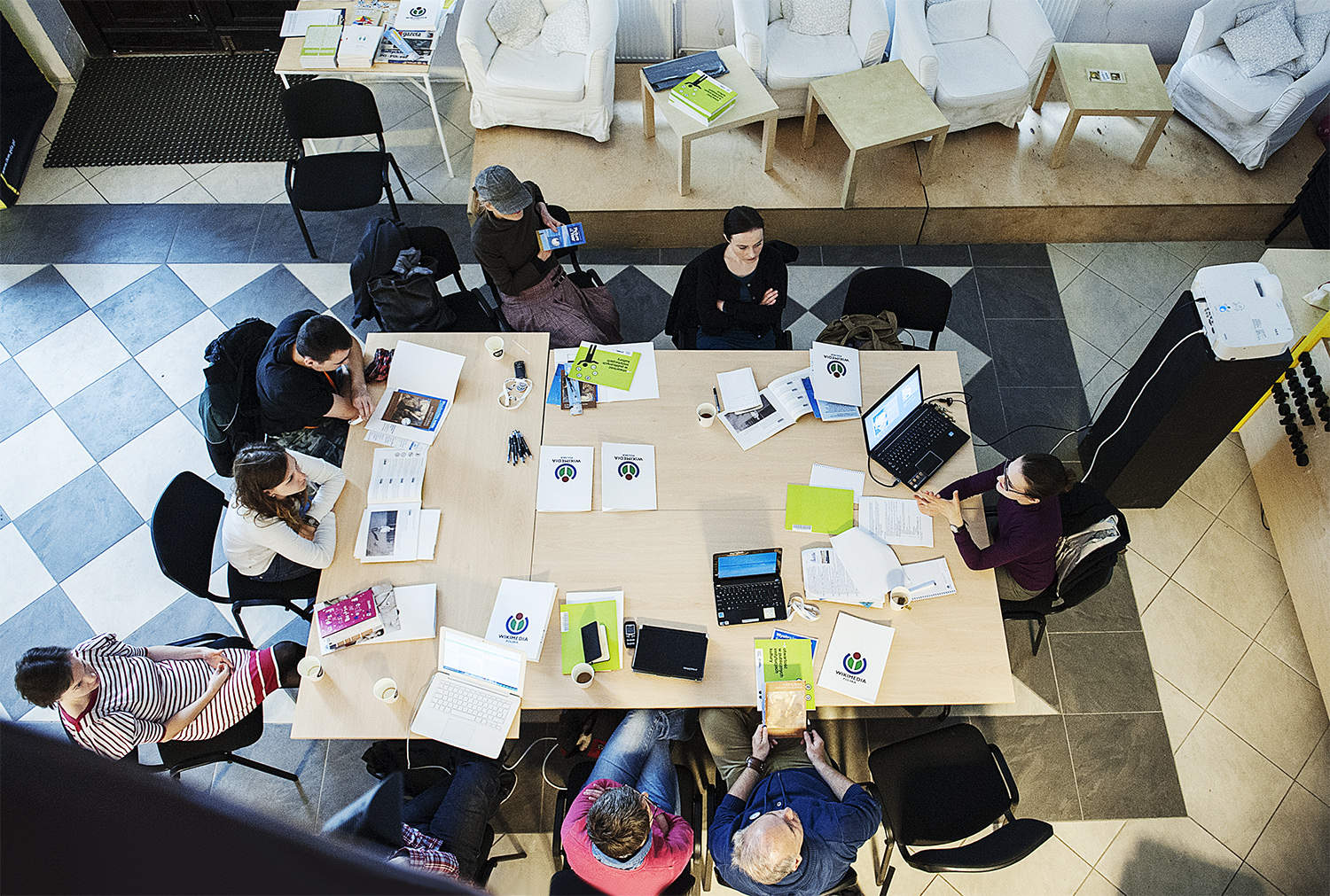 Presentation used for the Akademia Nowych Mediow on 29 May 2014